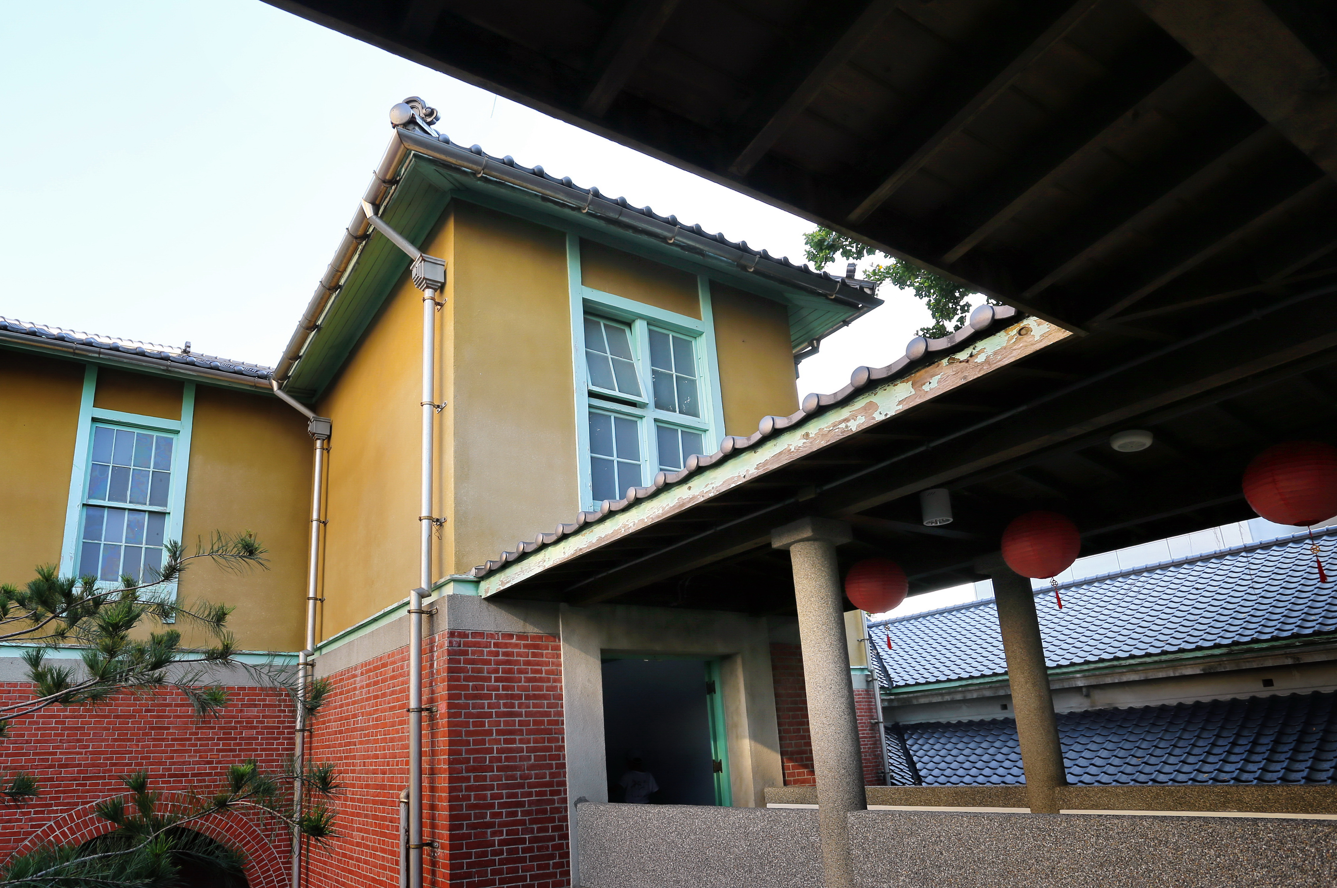 Yunlin Hand Puppet Museum (the former Huwei District Office), Huwei, Yunlin County, Taiwan.